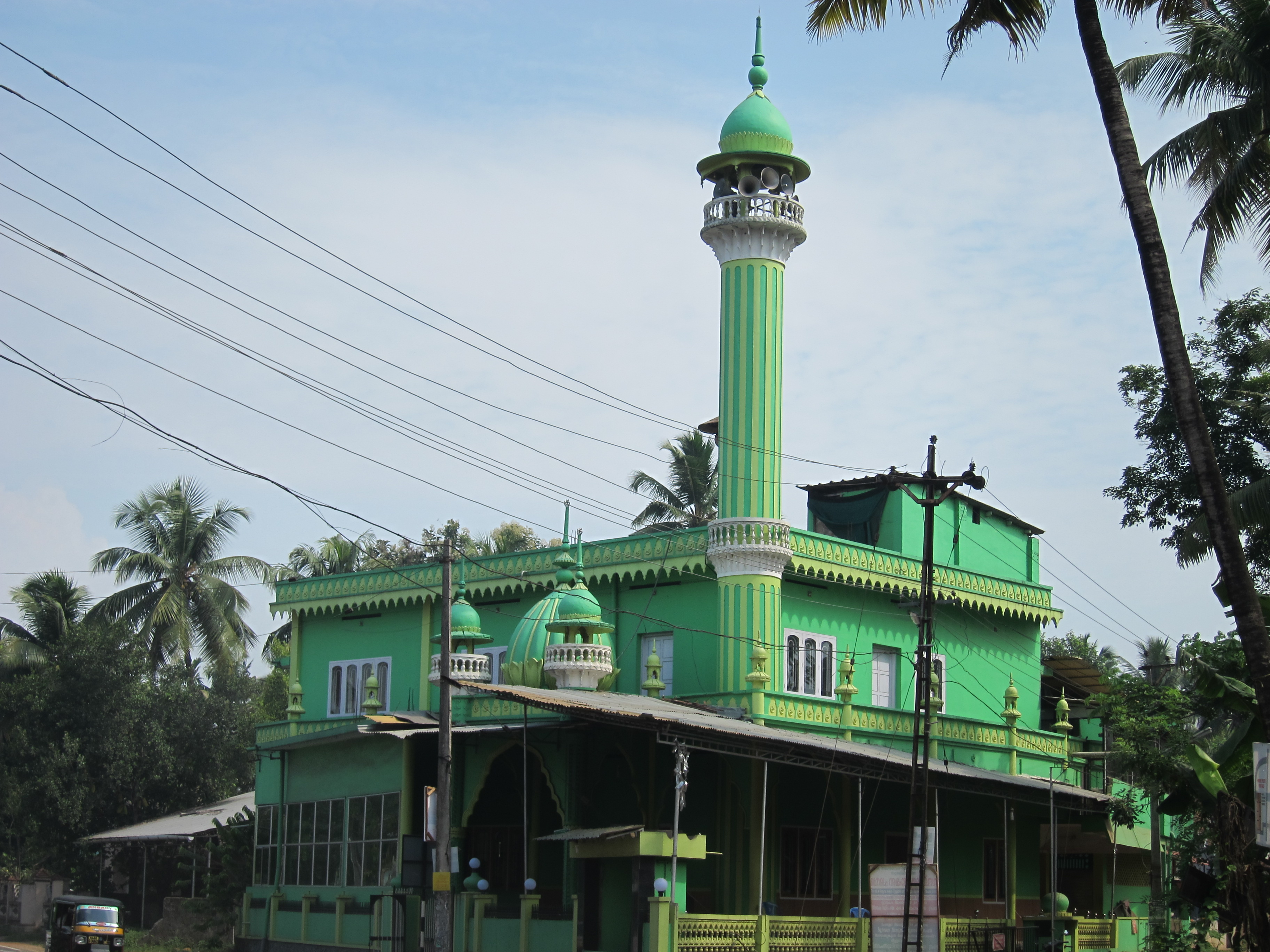 Masjid at Vallam, Perumbavoor